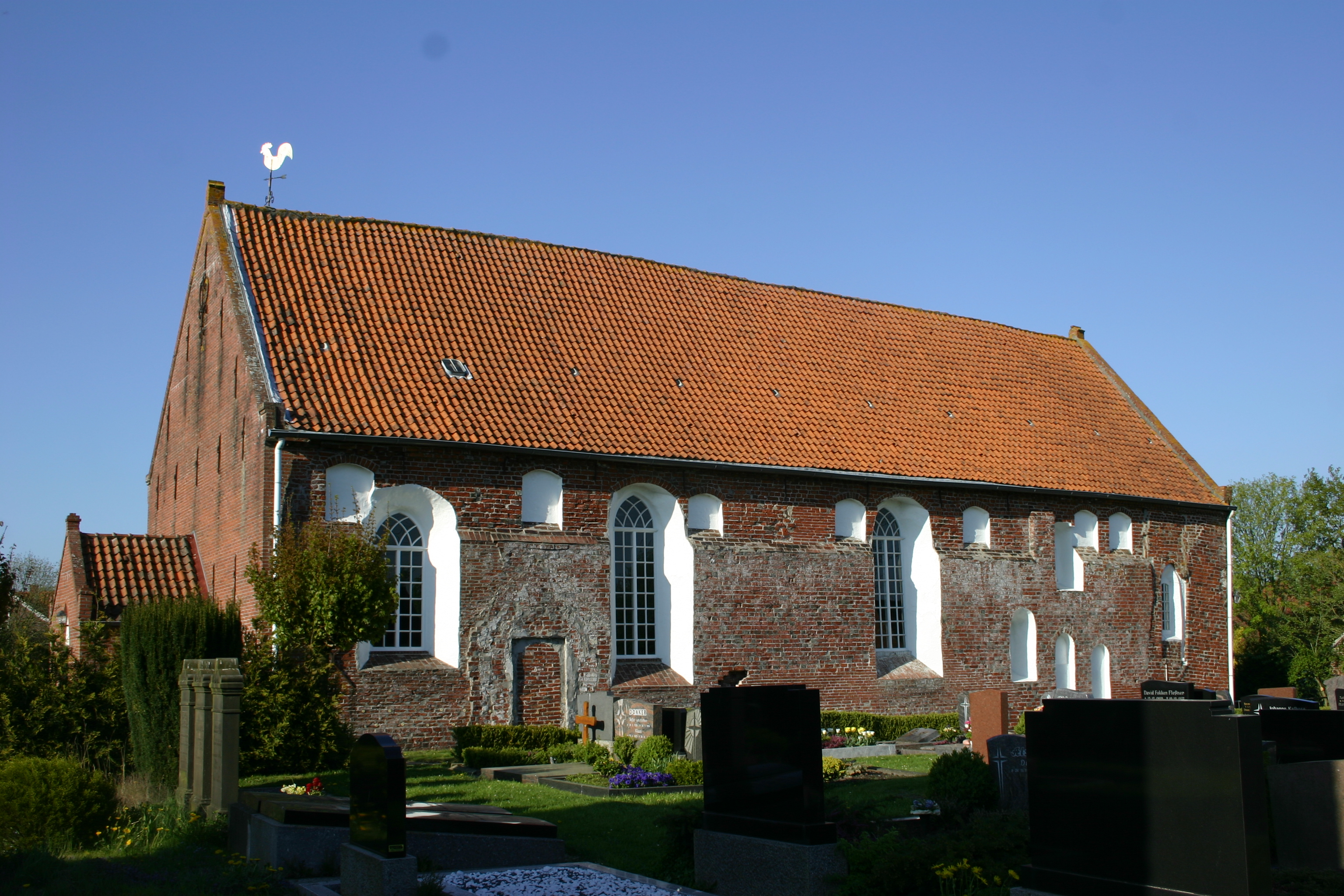 Historic Nicholas' Church in Rorichum, district of Leer, East Frisia, Germany